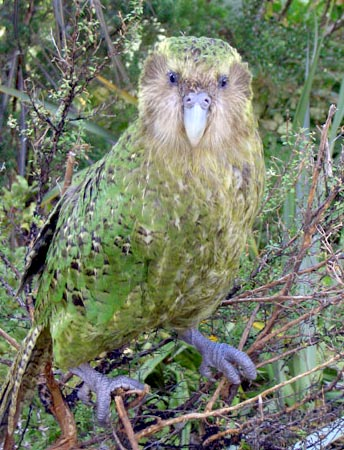 A full length parrot portrait. Sirocco the kakapo poses for the camera. Photo: Mike Bodie.